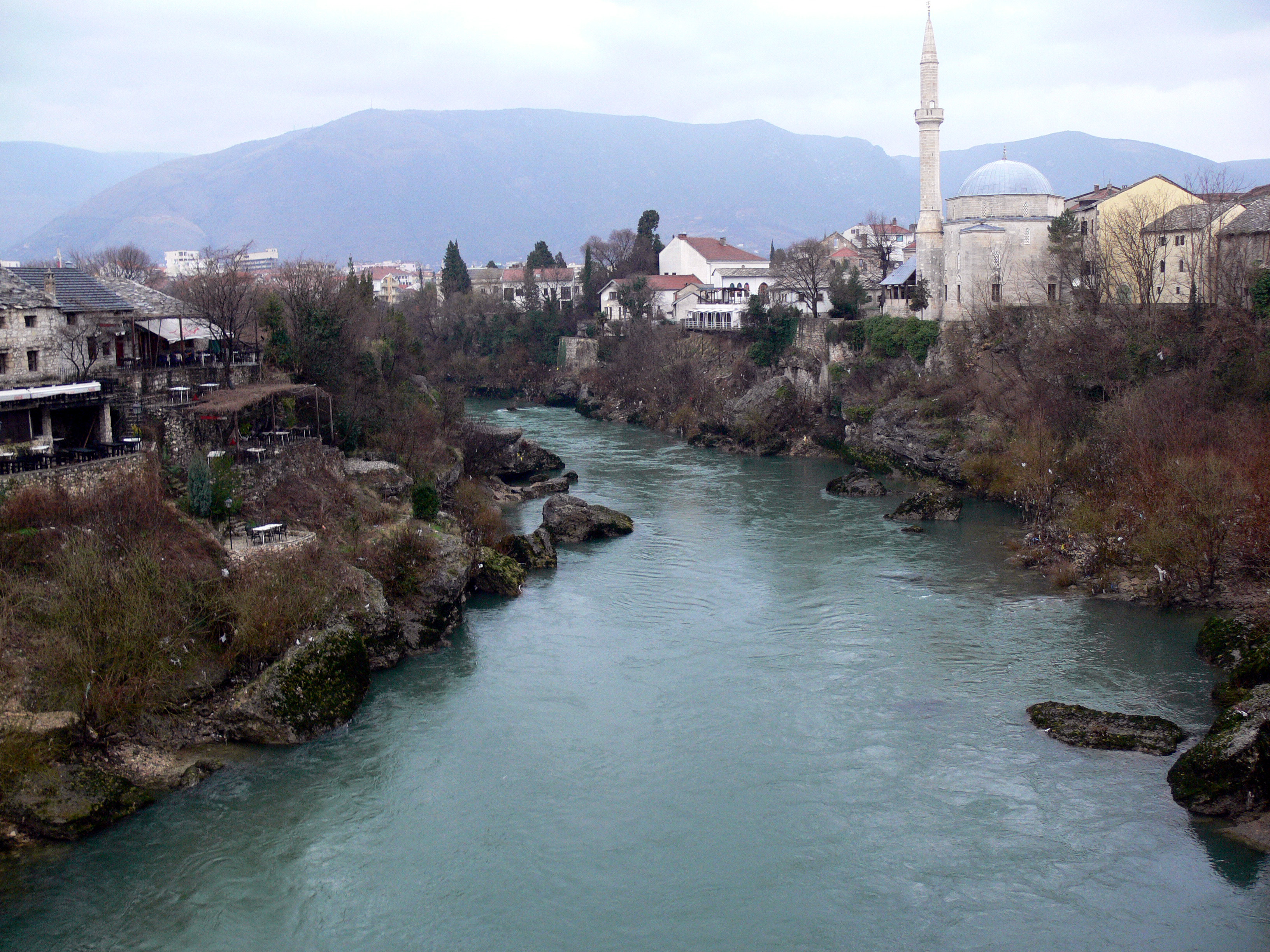 Mostar. The river Pielo Polje.